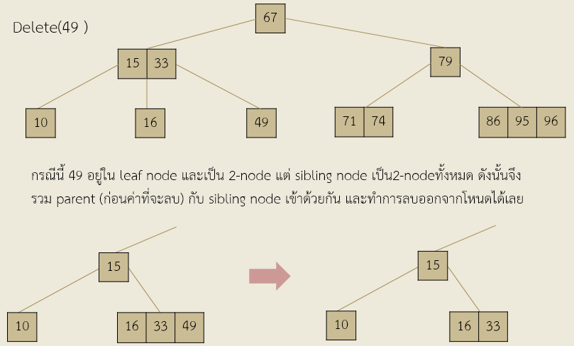 กรณีที่เลขที่ต้องการลบอยู่ใน leaf node และเป็น 2-node แต่ sibling node เป็น2-nodeทั้งหมด